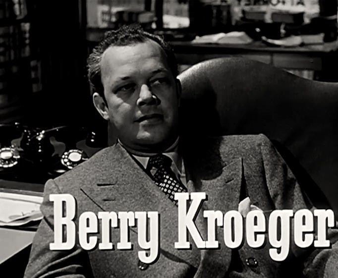 Berry Kroeger in Cry of the City - trailer (cropped screenshot)